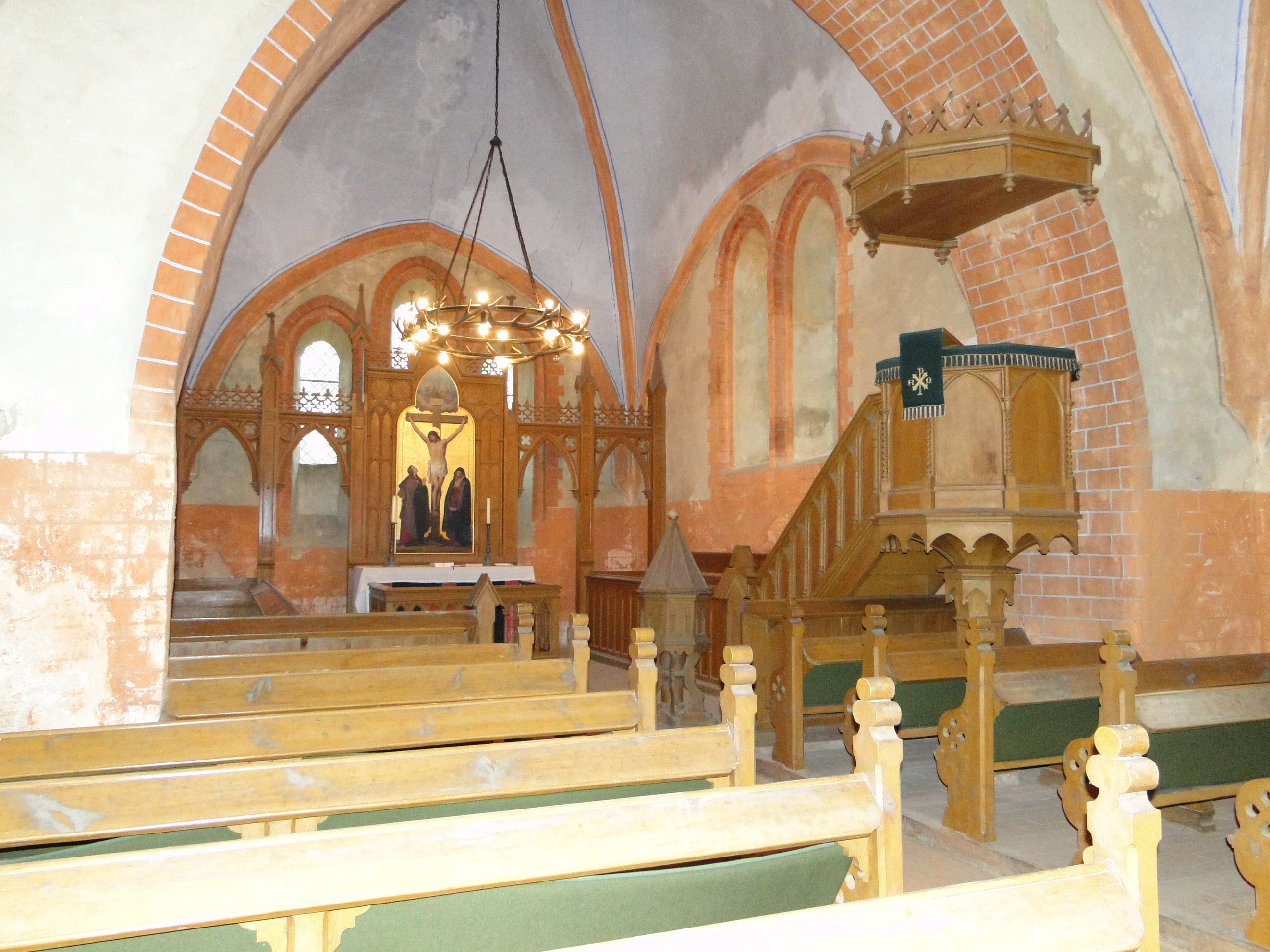 Interiors of church in Woserin, district Parchim, Mecklenburg-Vorpommern, Germany